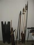 This is a picture of a collection of antique Negrito/Filipino weapon collection. In the picture you can see there are some very long arrows and a spear to thr right of these arrows as the longest piece. To the left of the three arrows you see a walking stick. Due to the quality of the picture, there appears to be a knob on top, which is actually a carving of a Negrito/Filipino Man. This walking stick doubles as a weapon that comes apart into one small, and one large stick both with equally sized blades. Only known piece in existence to date.